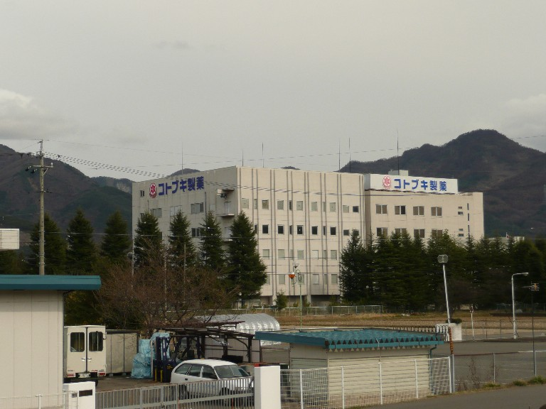 寿製薬 本社。長野県埴科郡坂城町。The head office of Kotobuki Pharmaceutical Co., Ltd. in Sakaki, Nagano, Japan.